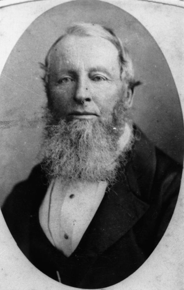 William Duckett White 1807-1898